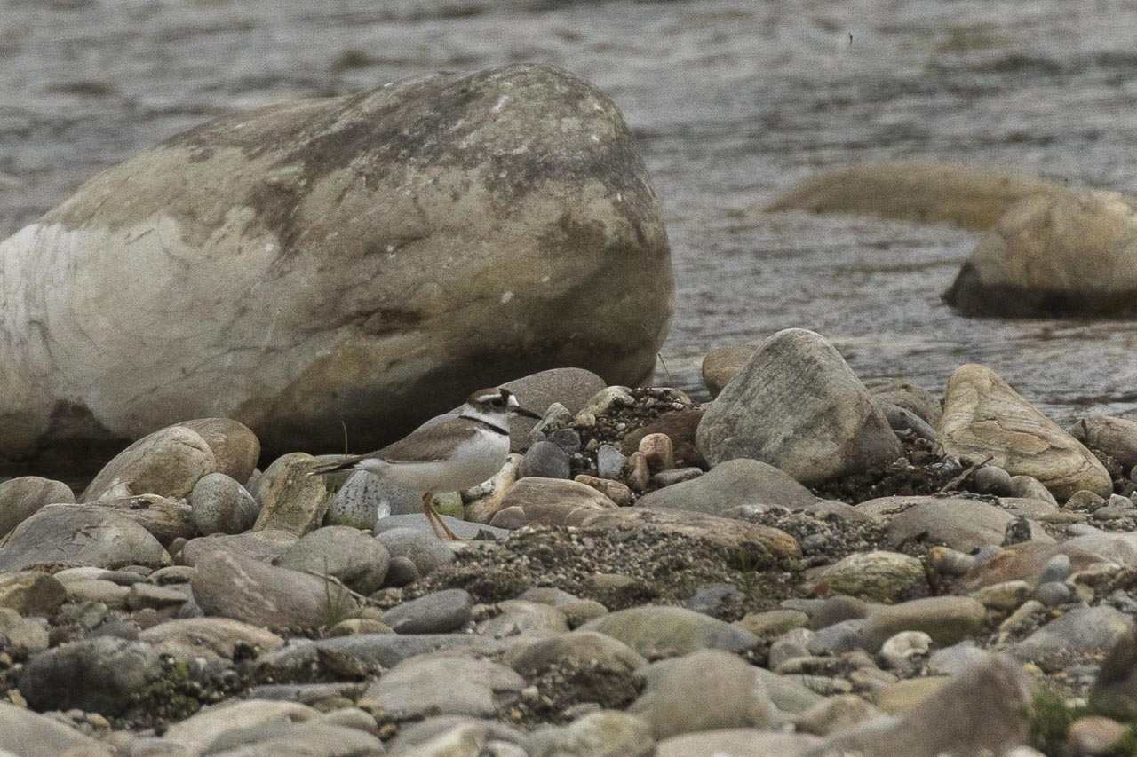 Long-billed Plover - Arunachal Pradesh - India_FJ0A8807